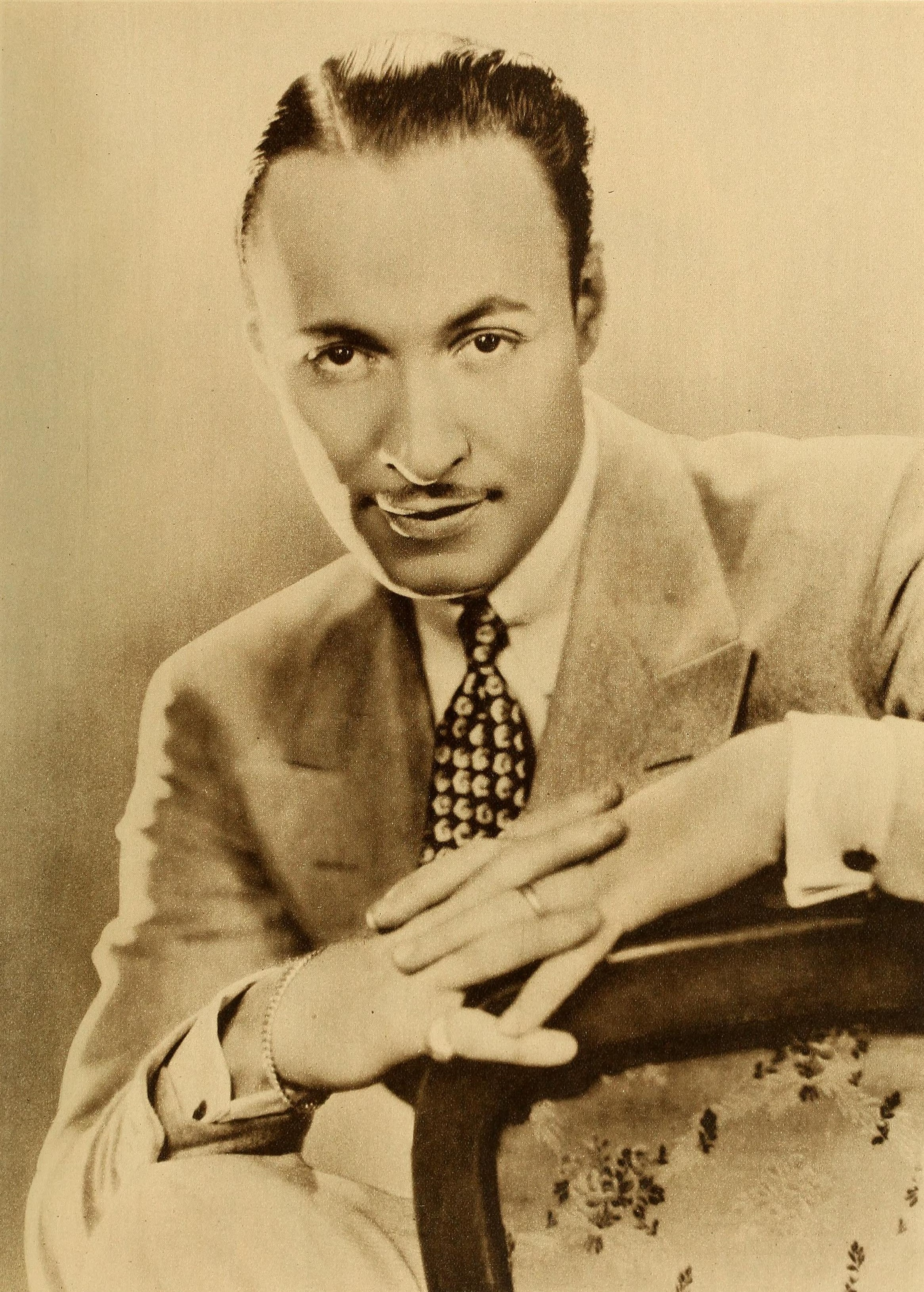 The New Movie, August 1930